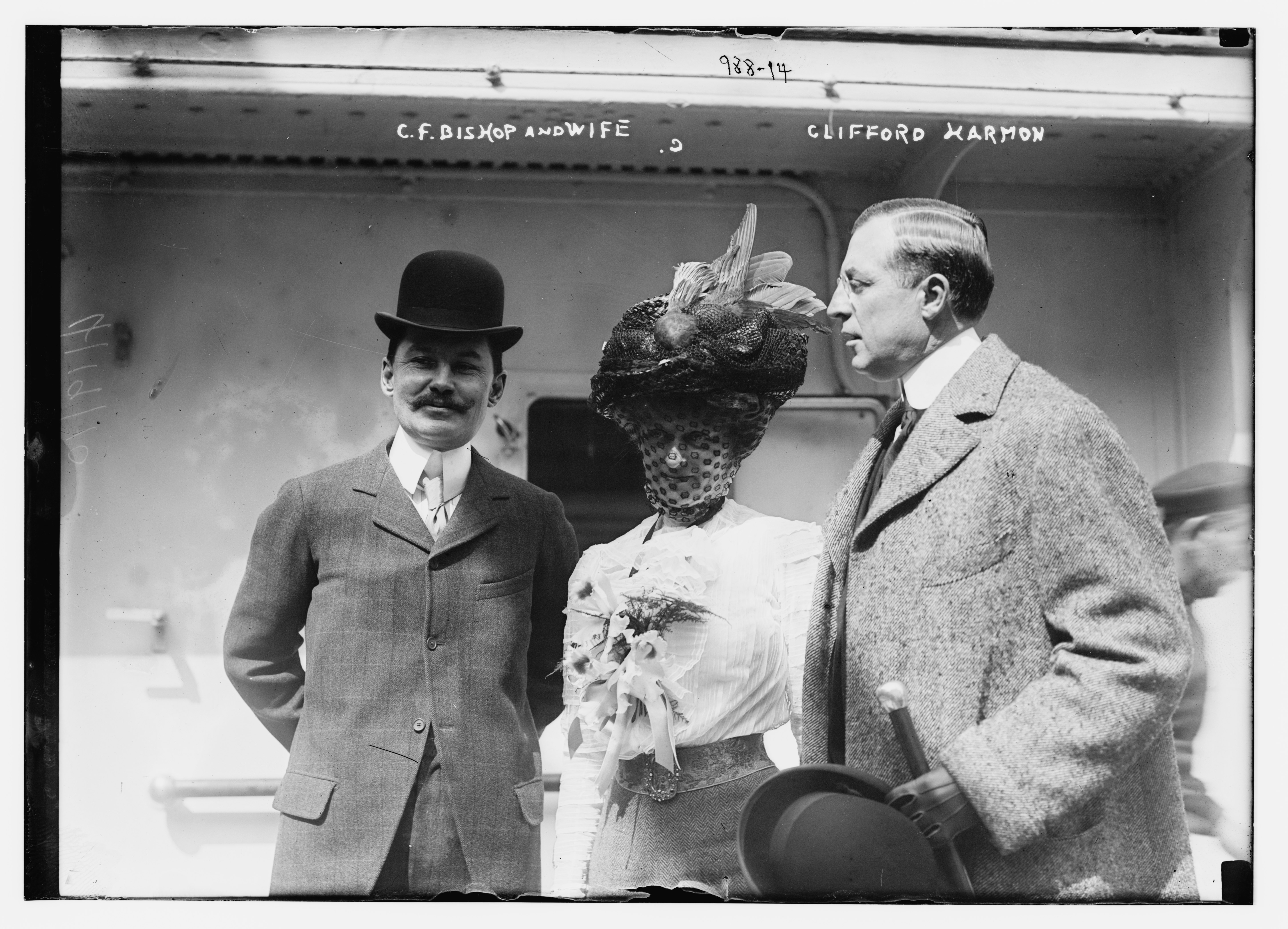 Title: Mr. and Mrs. C.F. Bishop with Clifford Harmon Abstract/medium: 1 negative : glass ; 5 x 7 in. or smaller.